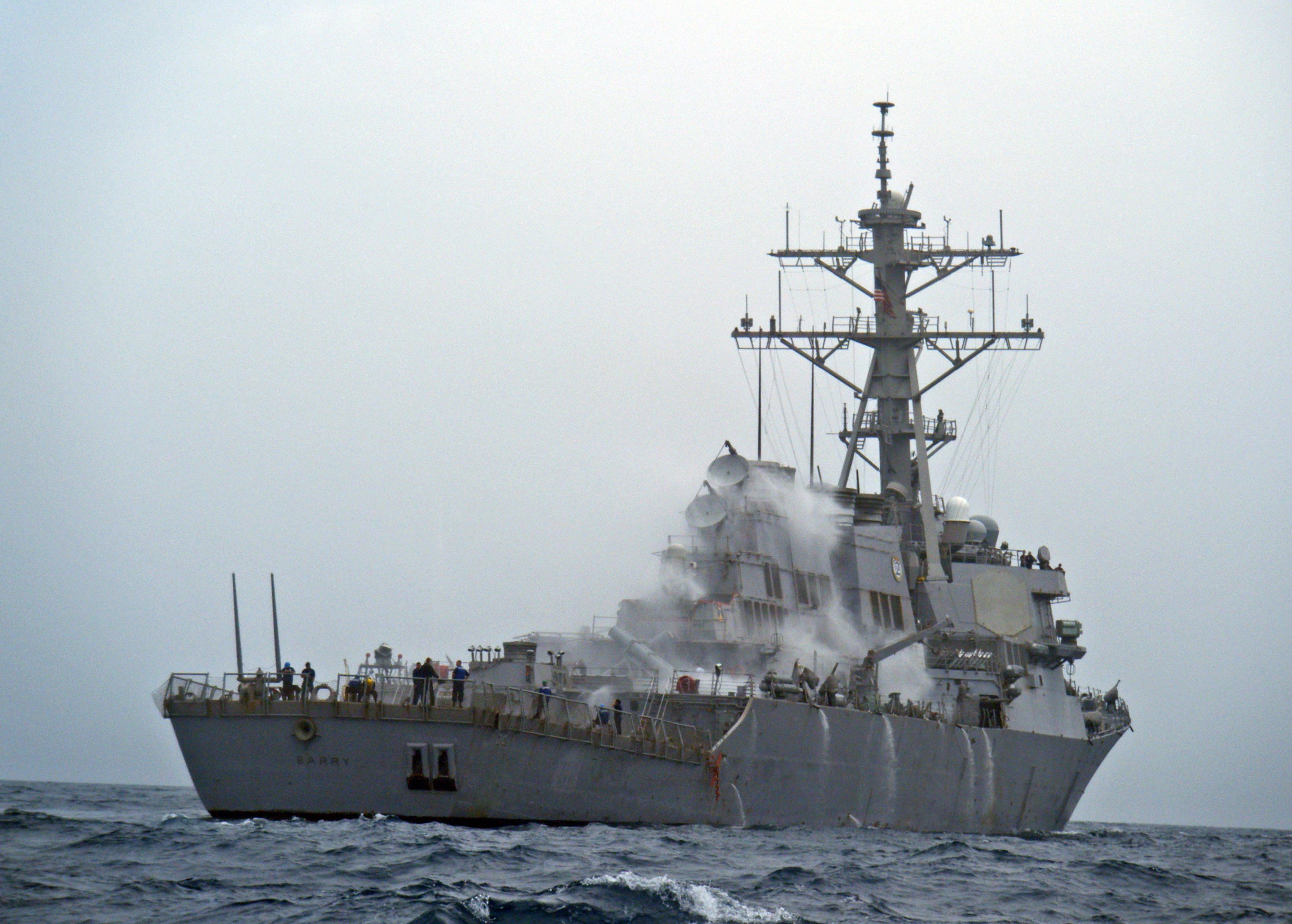 GULF OF ADEN (Feb. 15, 2011) The Arleigh Burke-class guided-missile destroyer USS Barry (DDG 52) conducts an operational check of the countermeasure wash down sprinkler system. The countermeasure wash down system washes the ships exterior in case of chemical, biological or radiological contamination. Barry is on a routine deployment conducting maritime security operations in the U.S. 5th Fleet area of responsibility. (U.S. Navy photo by Mass Communication Specialist 3rd Class Jonathan Sunderman/Released)